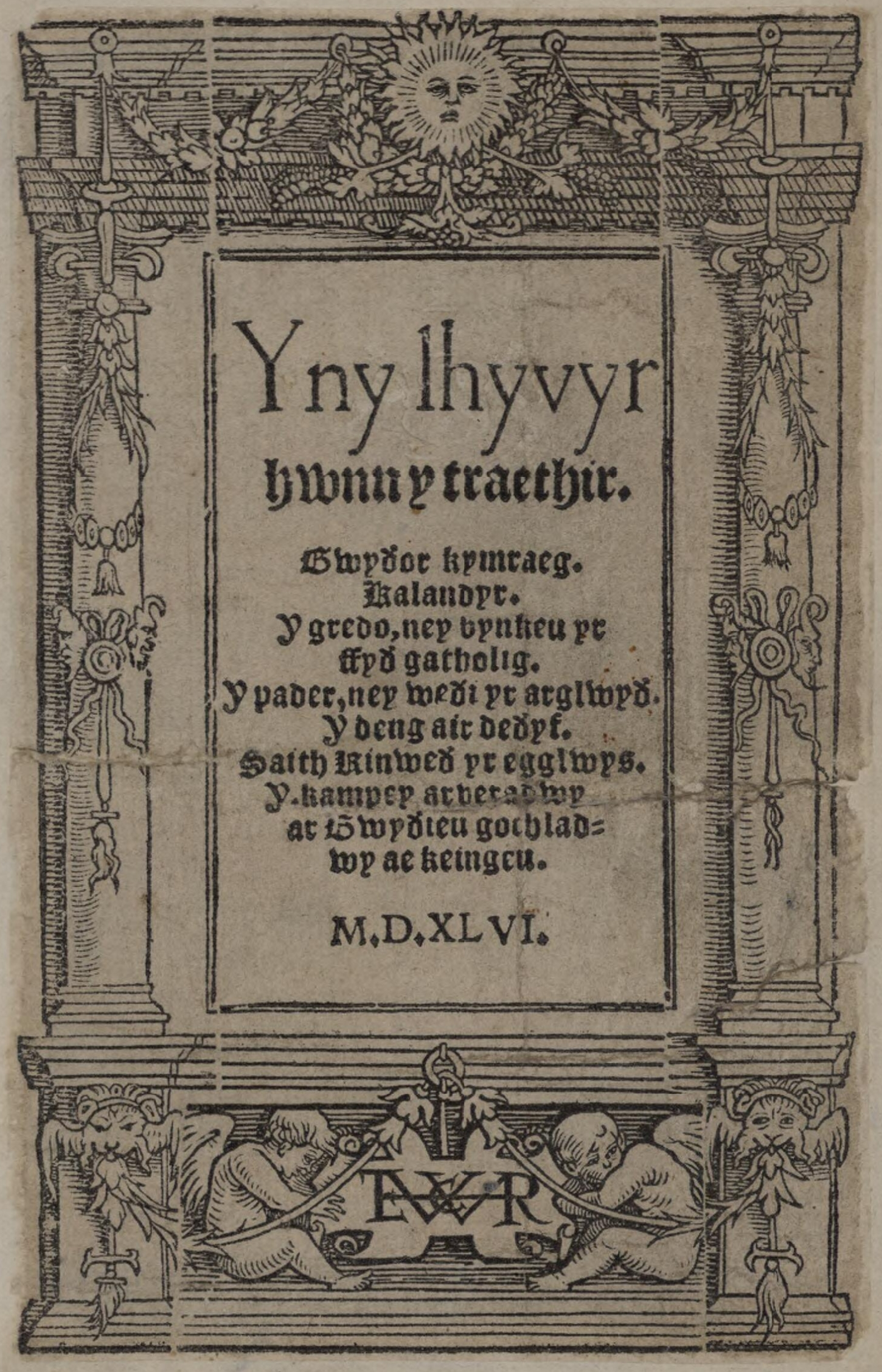 Title page of the first book printed in Welsh. Attributed to John Price (ca.1502-55). 1546